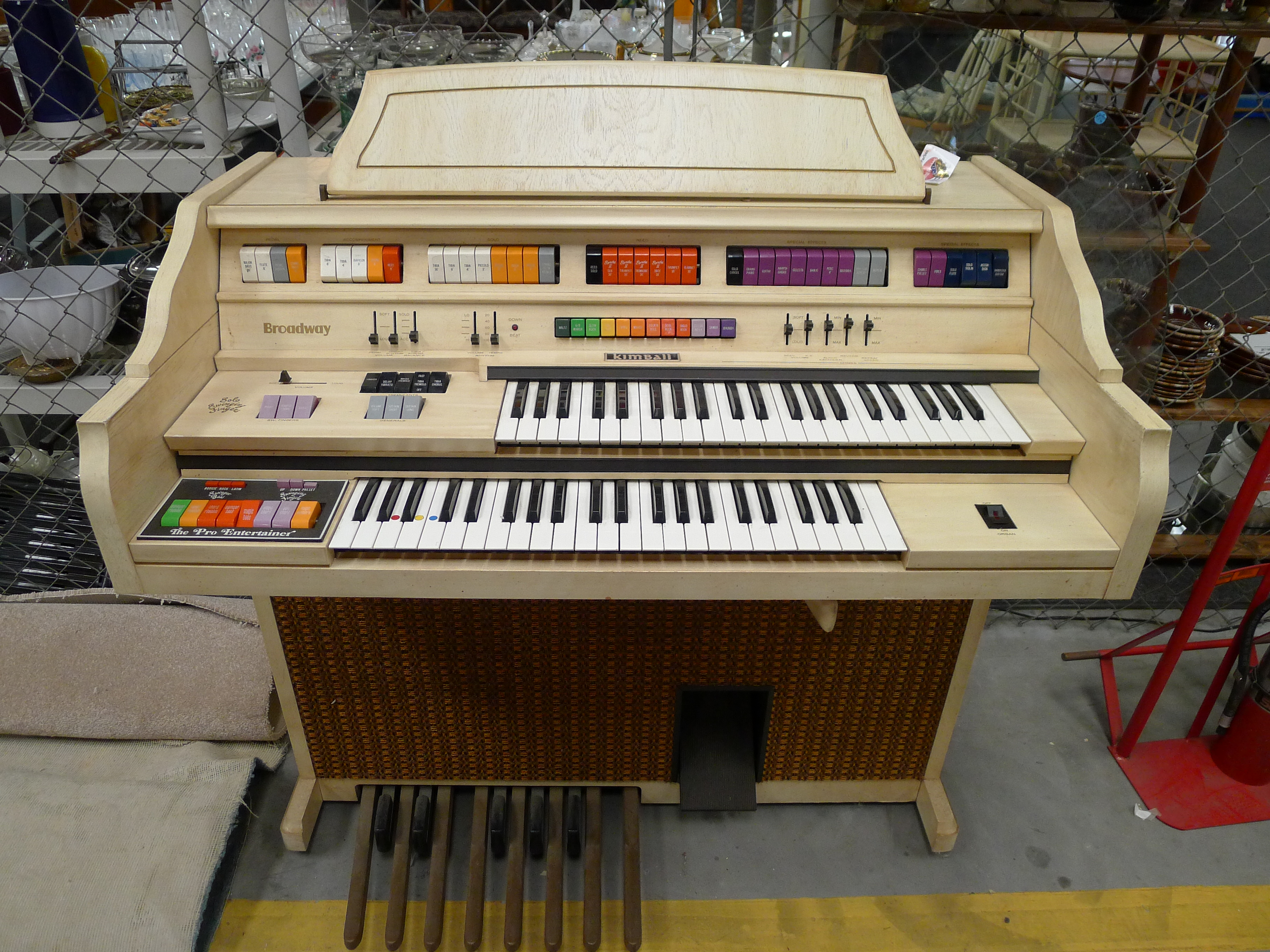 Kimball Broadway (white)